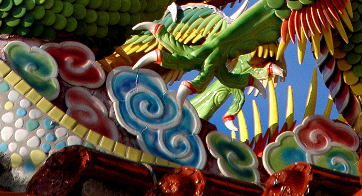 Ruyi motifs appear in the images of heavenly clouds in this Taoist temple sculpture in Kaohsiung, Taiwan. (Alton Thompson, 2007)